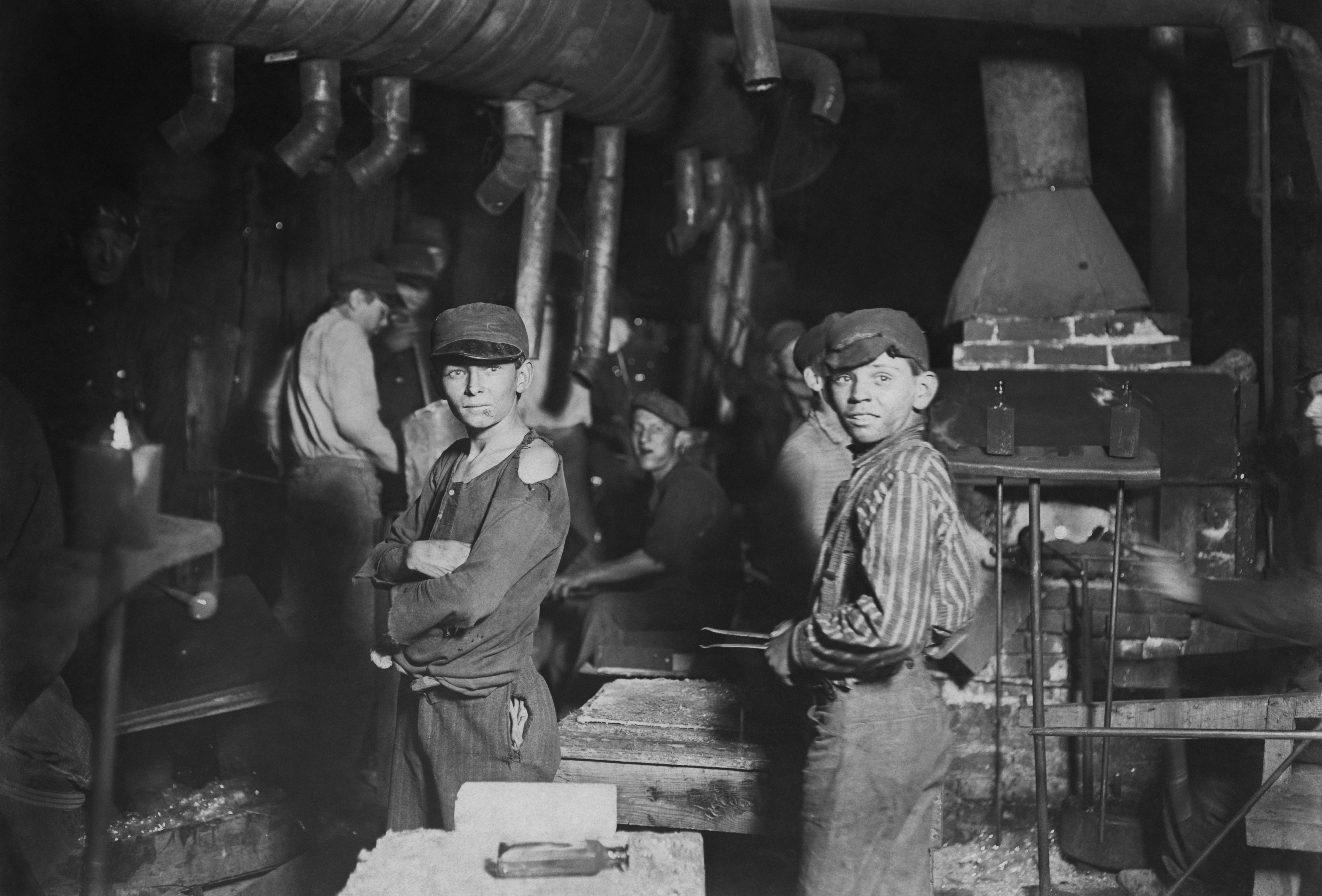 "Glassworks. Midnight. Location: Indiana." From a series of photographs of child labor at glass and bottle factories in the United States by Lewis W. Hine, for the National Child Labor Committee, New York.